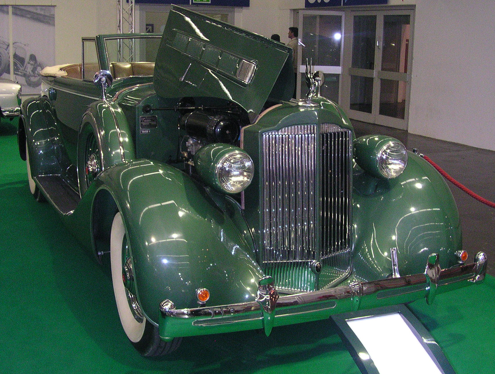 Essen Techno-Classica 2007, Packard Super Eight Modell 1501 Convertible (Cabriolet) Victoria, design by Dietrich Inc. (Detroit); straight eight, 327 c.i. / 5,25 litre (1935)